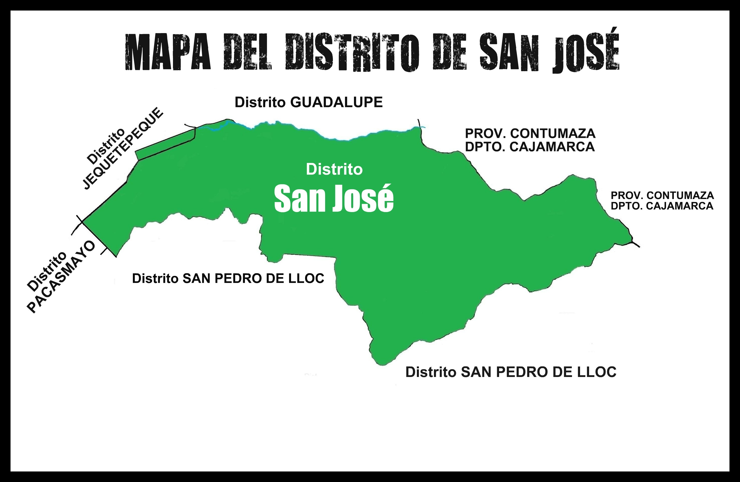 Mapa del distrito de San José